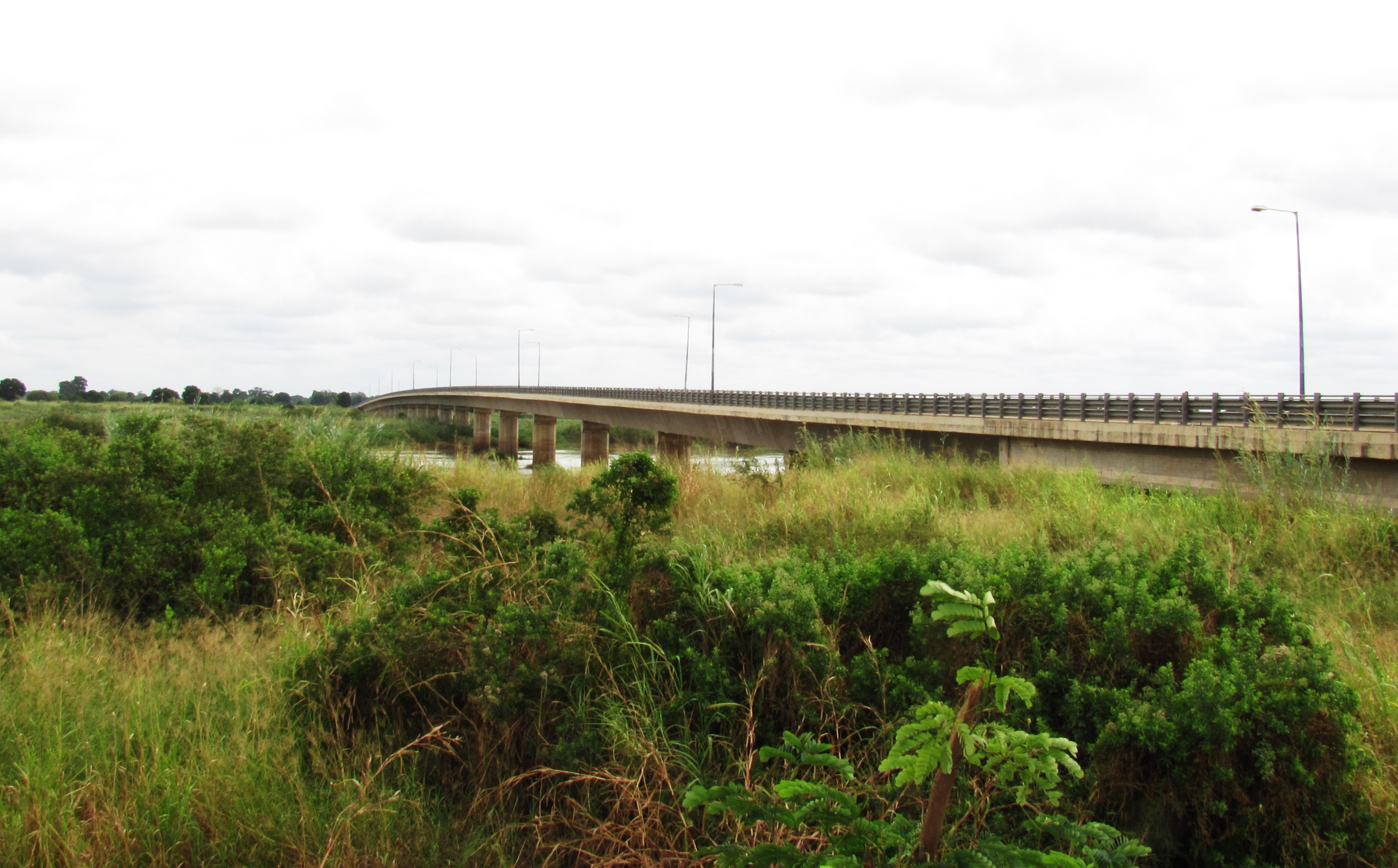 A much needed bridge which crosses the Rufiji River and carries road traffic between Dar es Salaam and the southern regions of Lindi and Mtwara. There was formerly a ferry crossing.